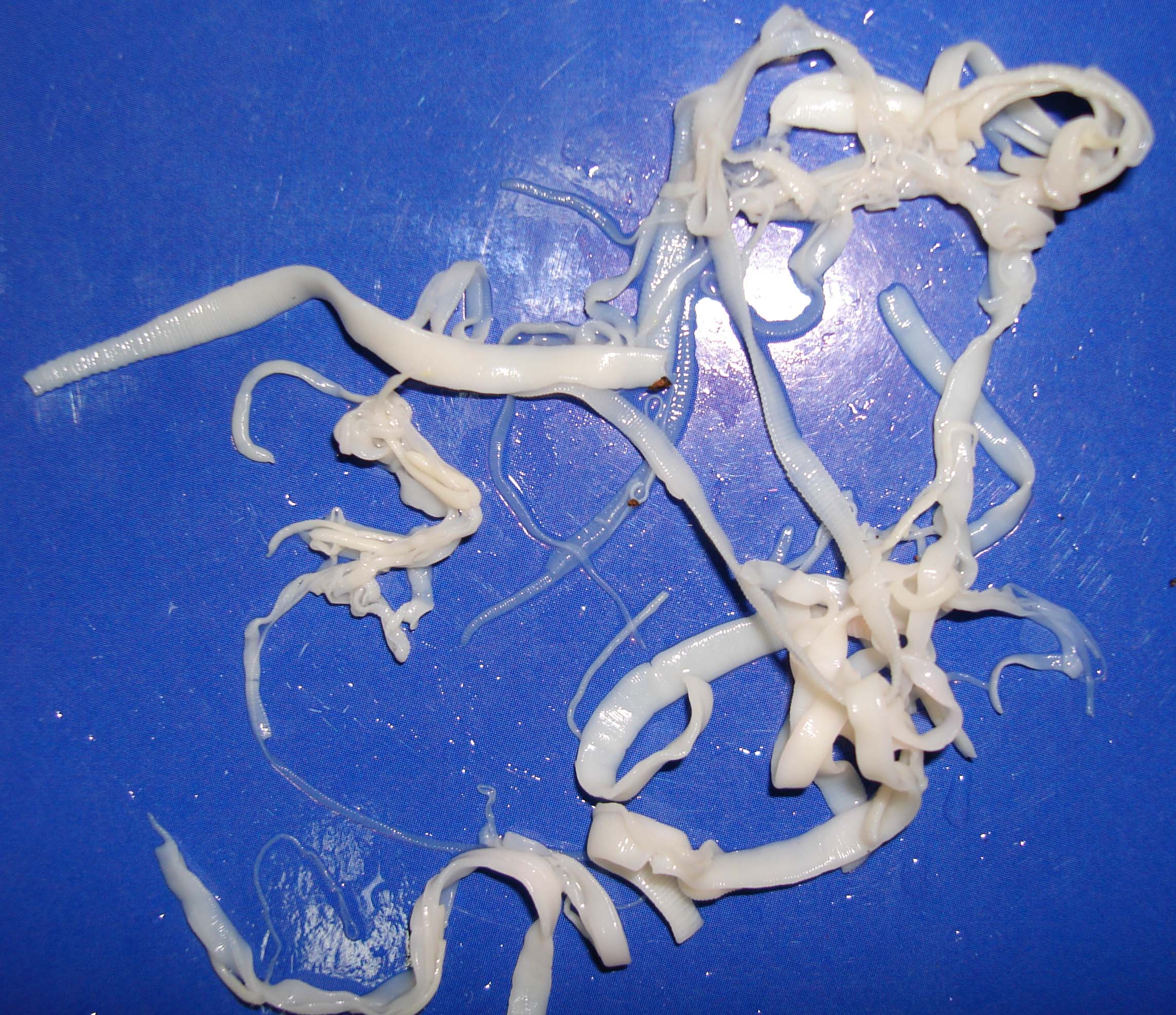 K. Lalchhandama from Science Vision, October-December Issue, 2009. Creative Commons License